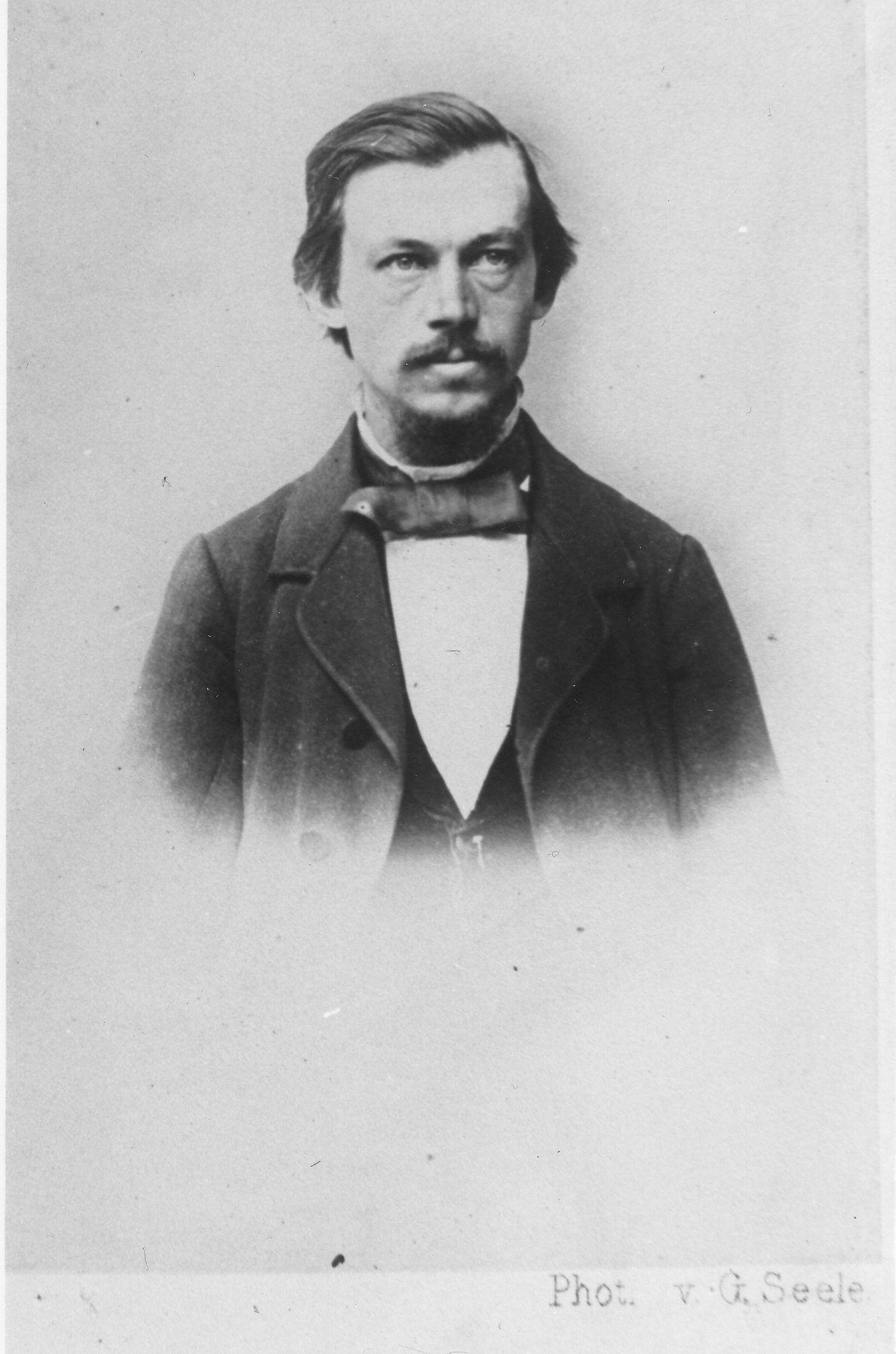 Carl Heinrich Hagen (1785 - 1856) was Prof. of economy and right at Koenigsberg, todays Kaliningrad/ Russia.